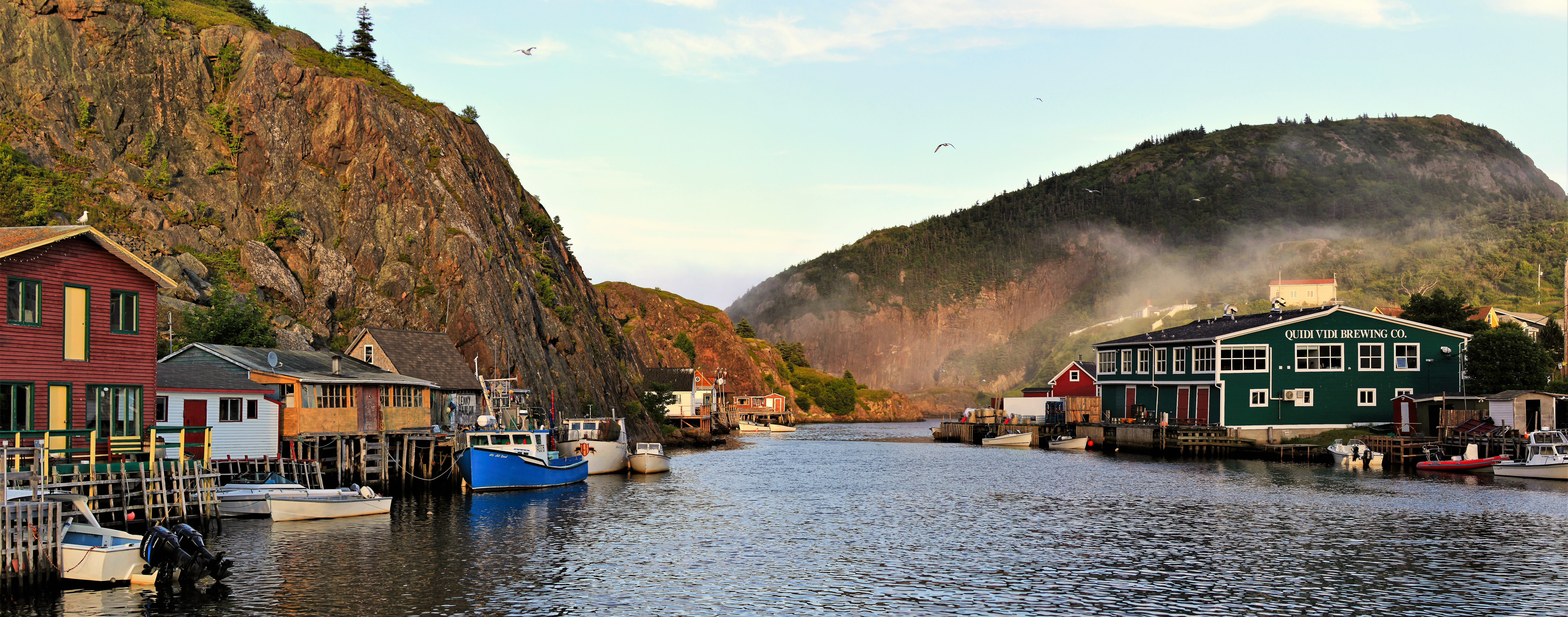 Context view: Quidi Vidi Harbour (enclave community, St. John's, NL)